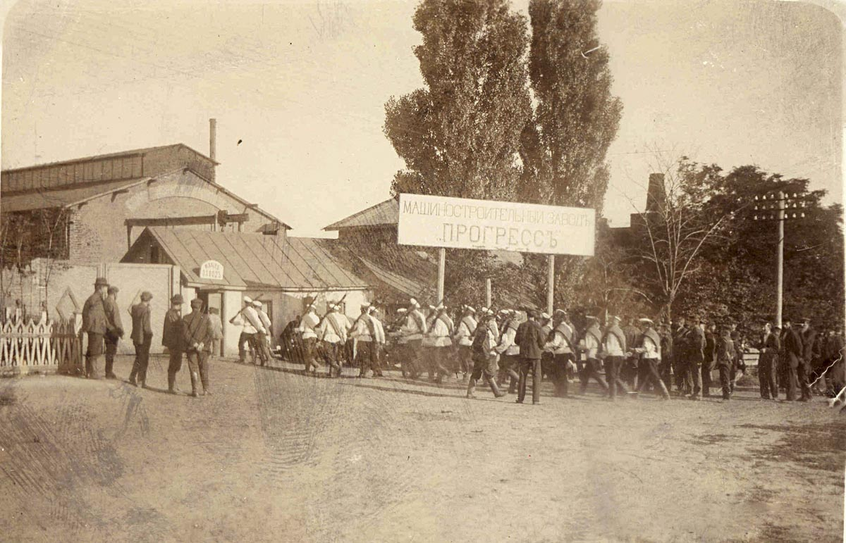 Machine Works Progress in Berdychiv